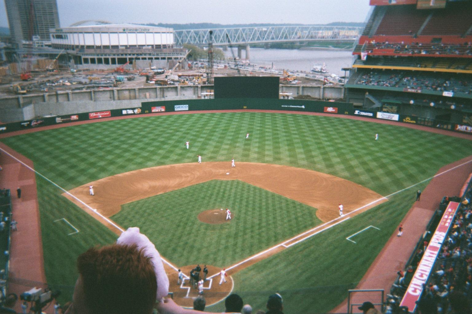 In case you have never seen this before, to make room for the Great American Ballpark, seating sections of the outfield were removed, offering great views of construction, the Firstar Center and the Ohio River. This April 27, 2001 game at Cinergy Field (aka Riverfront Stadium) was between the Reds and the New York Mets